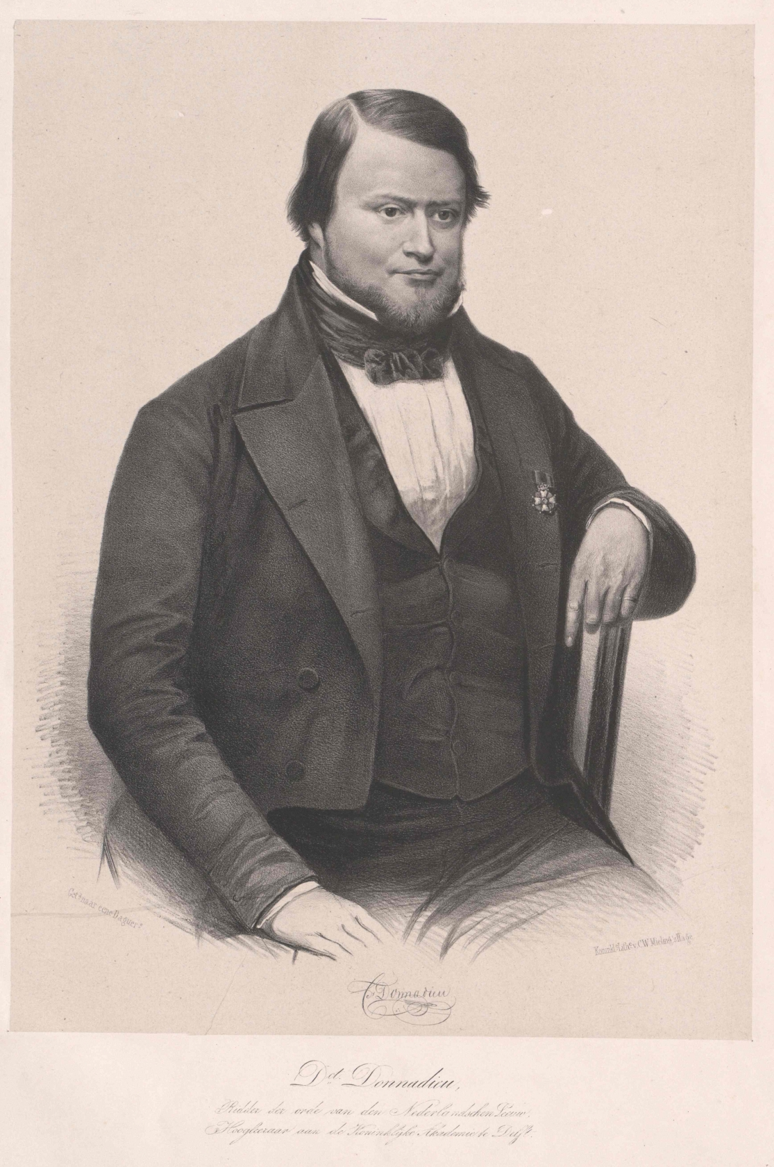 Carel Frederik Donnadieu (1815-1858)